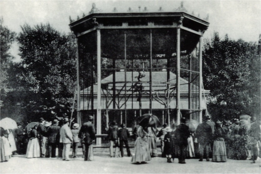 The monkey cage in the Schönbrunn Zoo at the end of 19th century